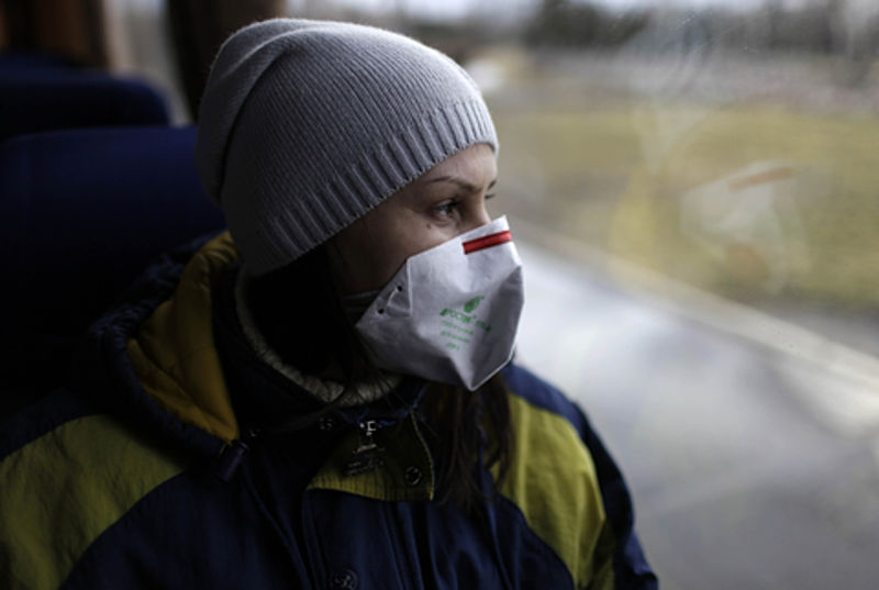 A Ukrainian tourist visits the site of Chernobyl. For the first time in 25 years, official tours are being formed.